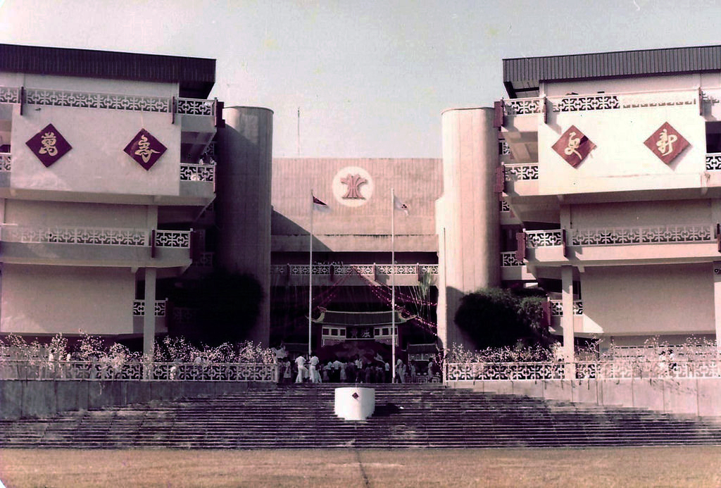 Facade of the old building of Hwa Chong Junior College, circa 1983. Digitised in October 2017. The building was evacuated in 1986 and rebuilt in 1990.